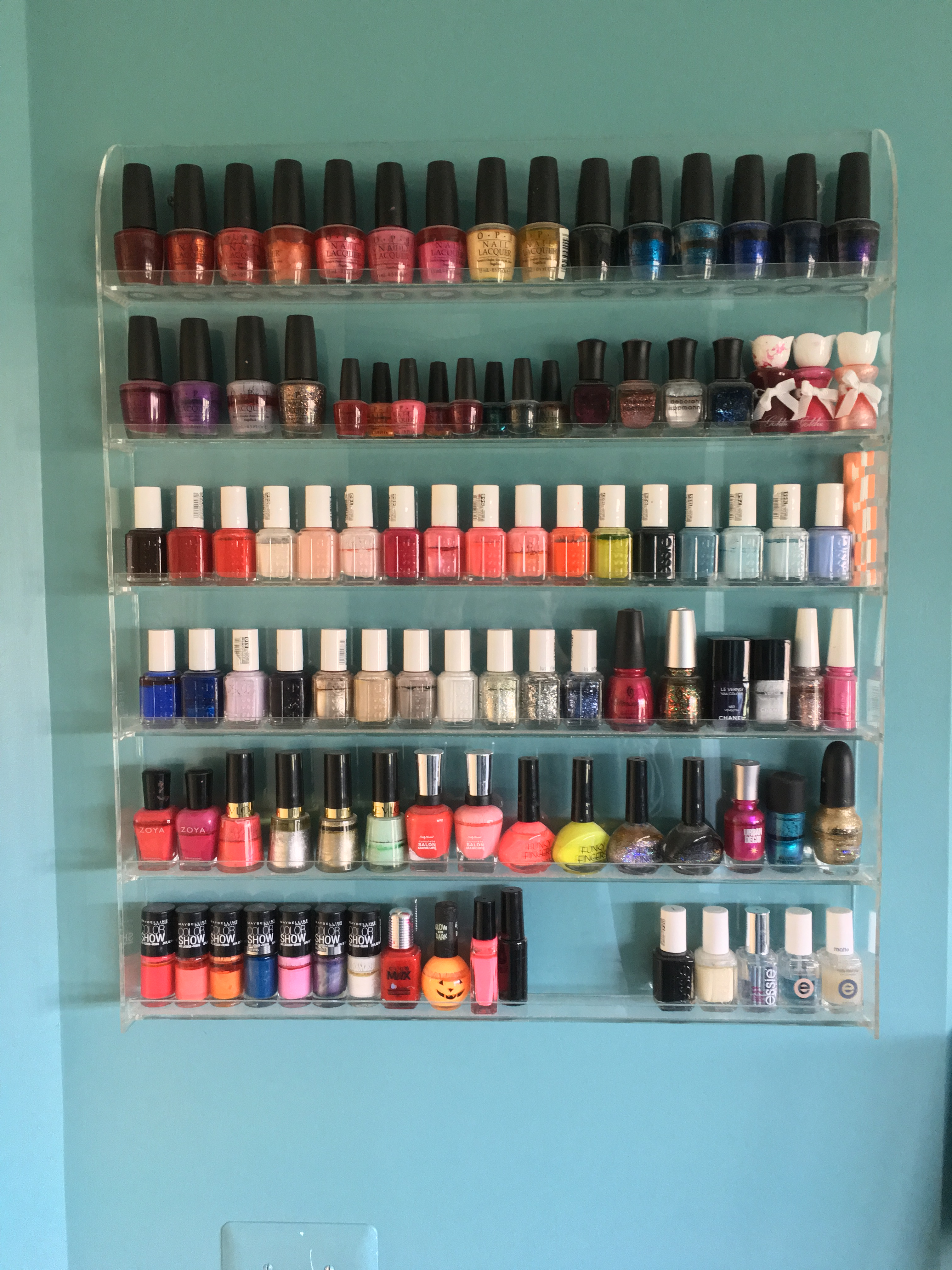 At home nail polish collection in the USA.